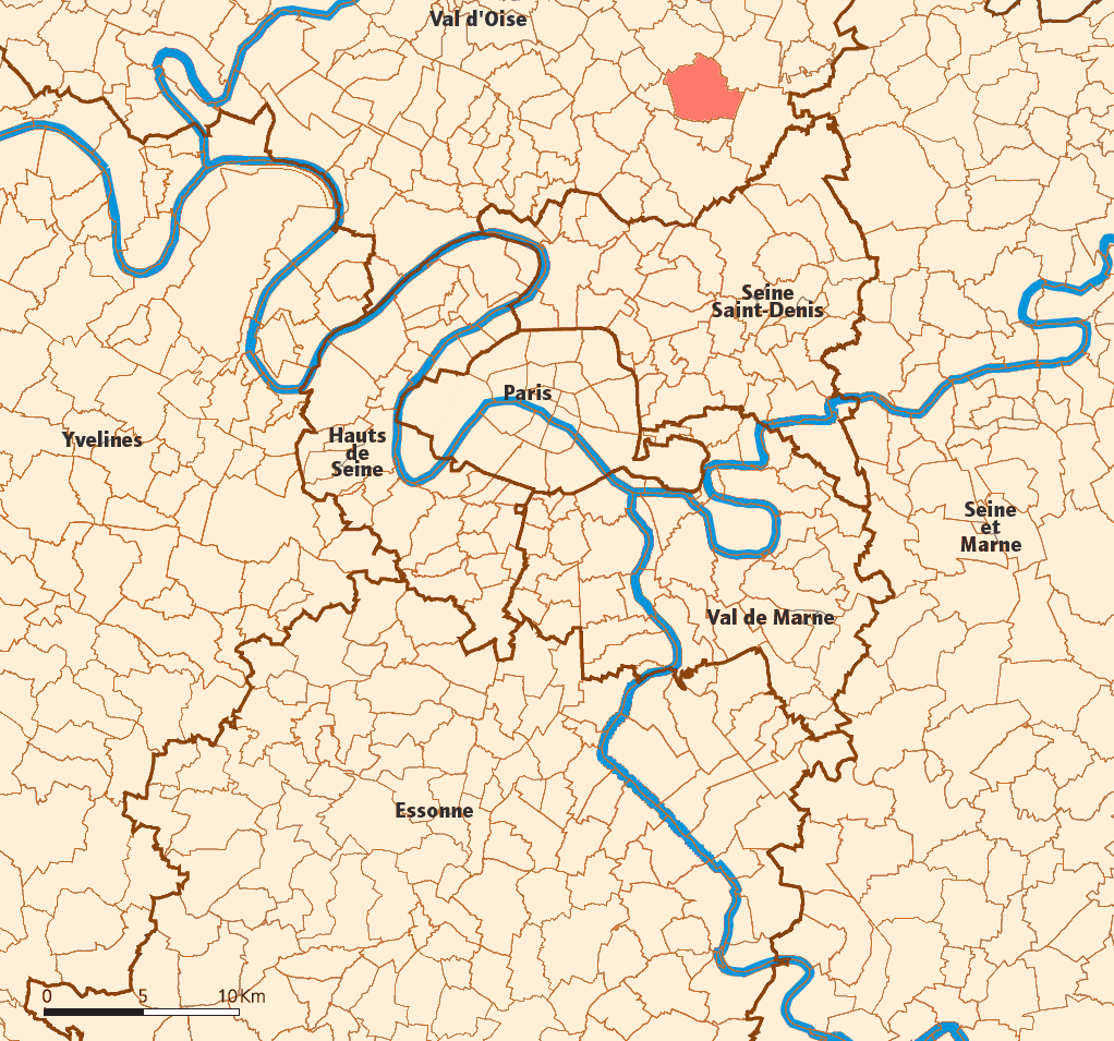 Created map myself.